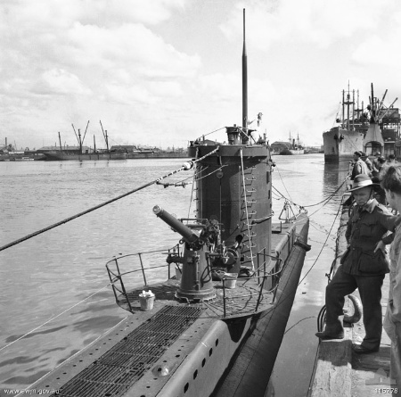 AWM caption : "MELBOURNE, VIC. 1945-09-12. THE CONNING TOWER AND GUN OF THE ROYAL NAVY SUBMARINE, HMS VORACIOUS, MOORED AT NO. 7 NORTH WHARF. IT IS A V CLASS SUBMARINE OF 650 TONS DISPLACEMENT, OVERALL LENGTH 204 FEET AND IS FITTED WITH FOUR TORPEDO TUBES AND A 3-INCH GUN. IT CARRIES A CREW OF FOUR OFFICERS AND THIRTY TWO RATINGS."